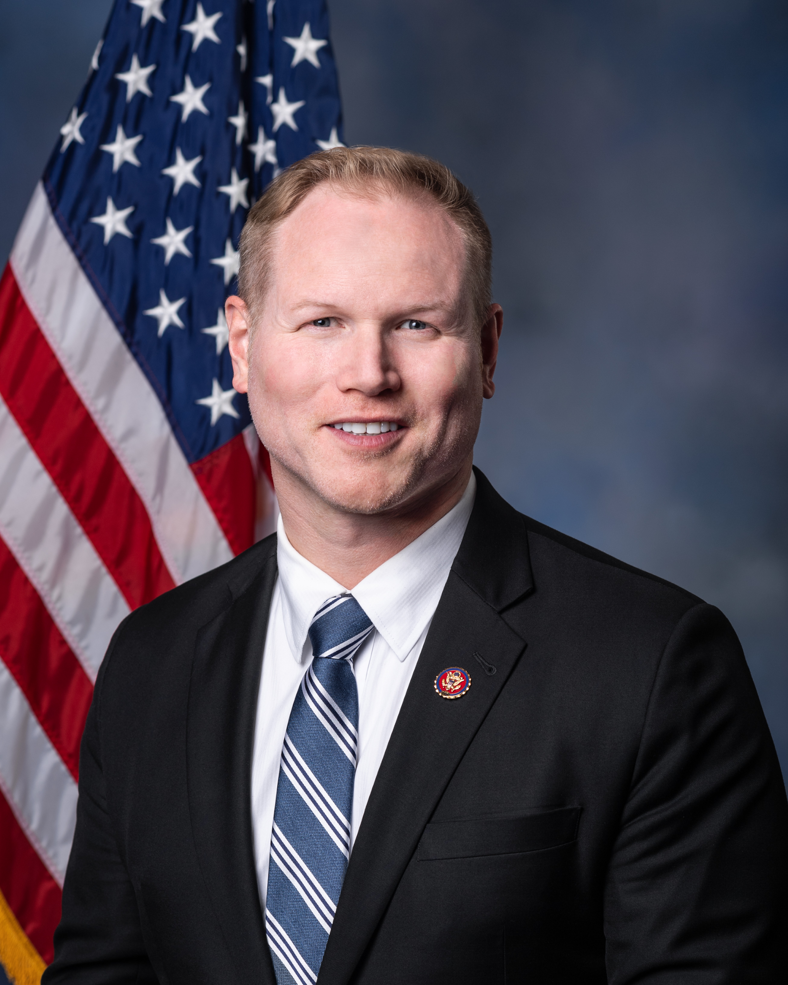 Steve Watkins, US Representative for Kansas's 2nd congressional district (2019).